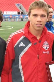 Matt Stinson with TFC Academy in 2009.